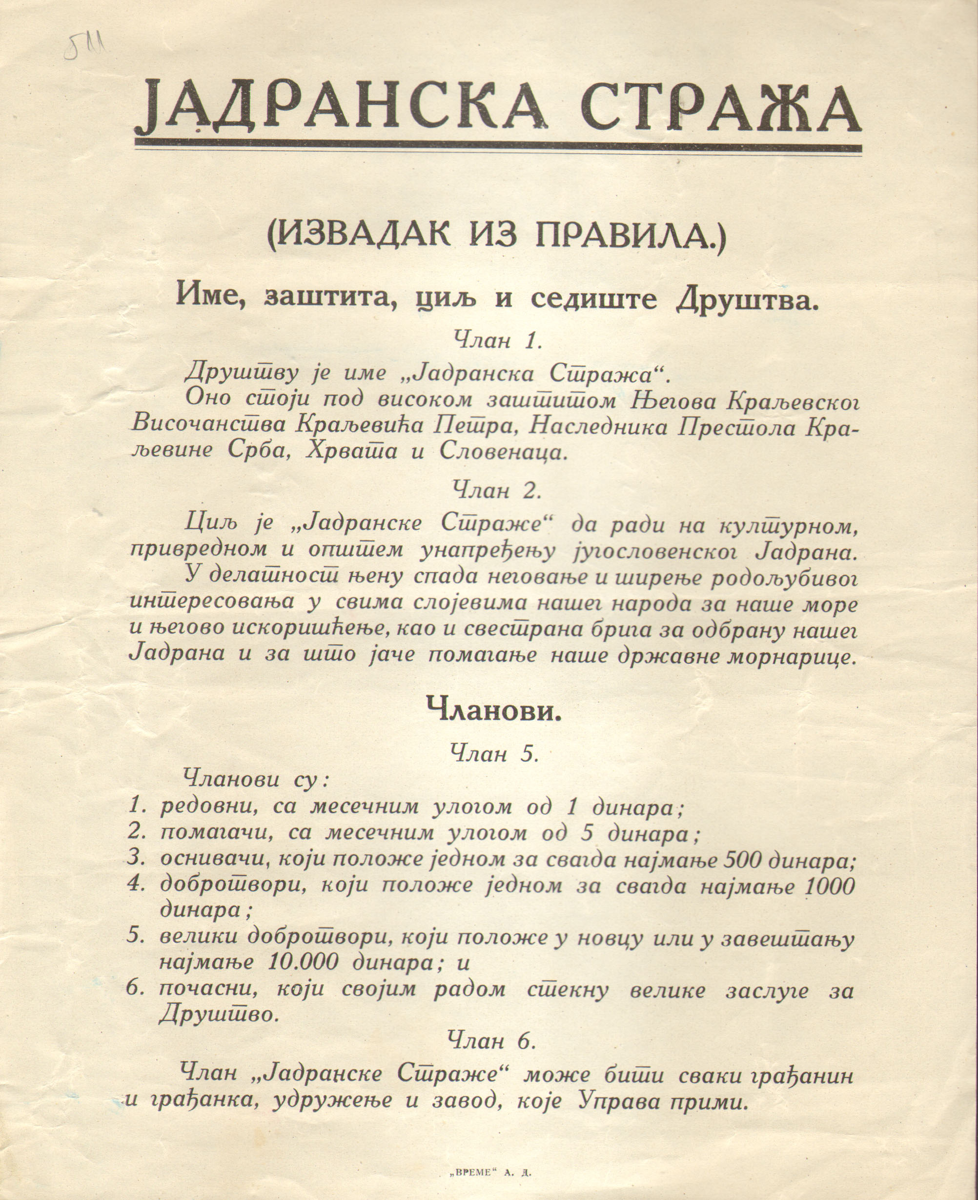 Excerpt from the rulebook of the Society for the Protection of the Adriatic “Jadranska straža” in the Kingdom of Serbs, Croats and Slovenes (1920's). Inventory number 511. Srpski (latinica): Izvod iz pravilnika Društva za zaštitu Jadrana “Jadranska straža” u Kraljevini SHS (20-te godine 20. veka). Inventarski broj 511.